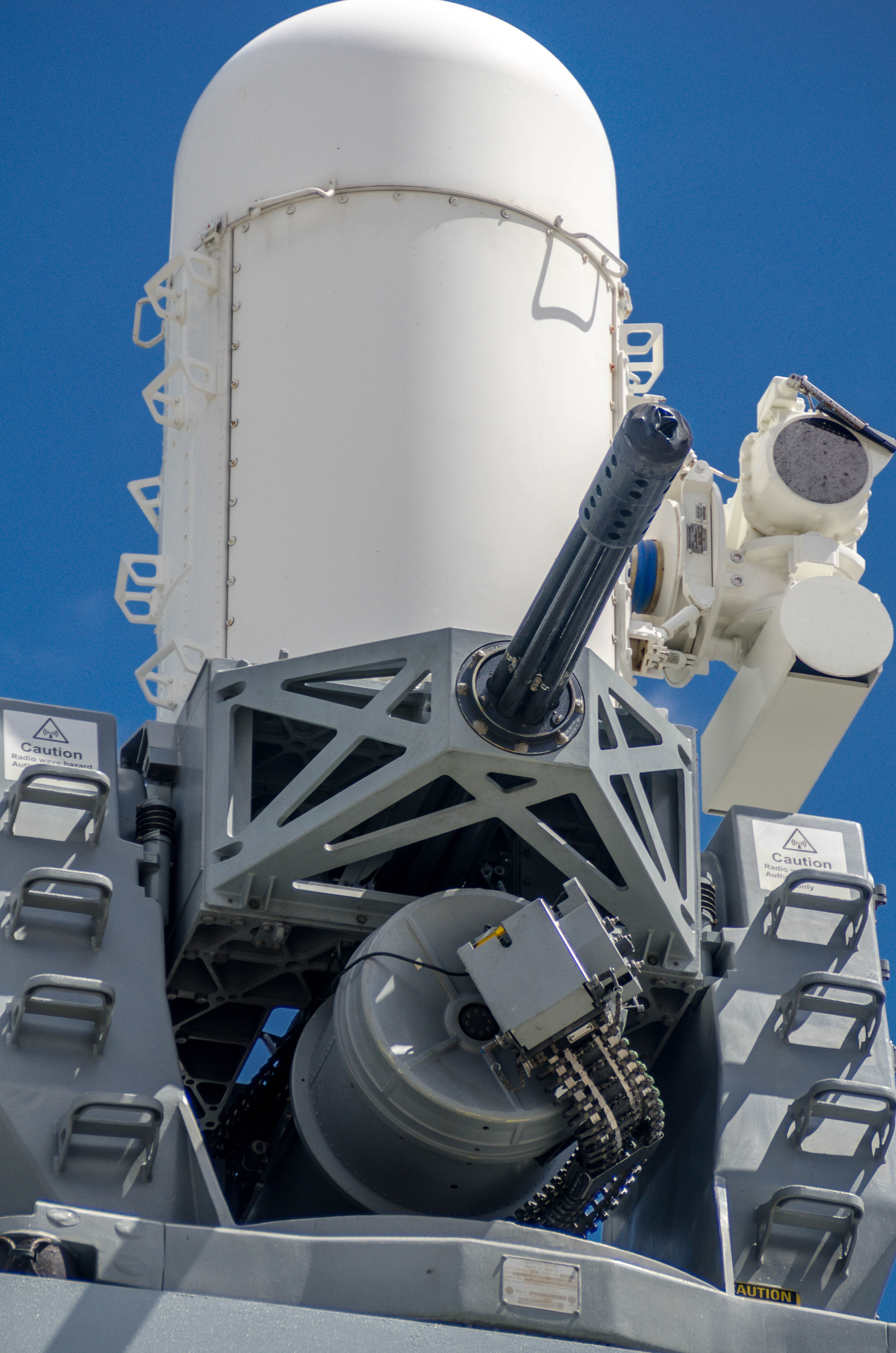 Raytheon Missile Systems Phalanx Block 1B close-in weapon system (CIWS) on board the Royal Navy Type 45 destroyer HMS Daring.